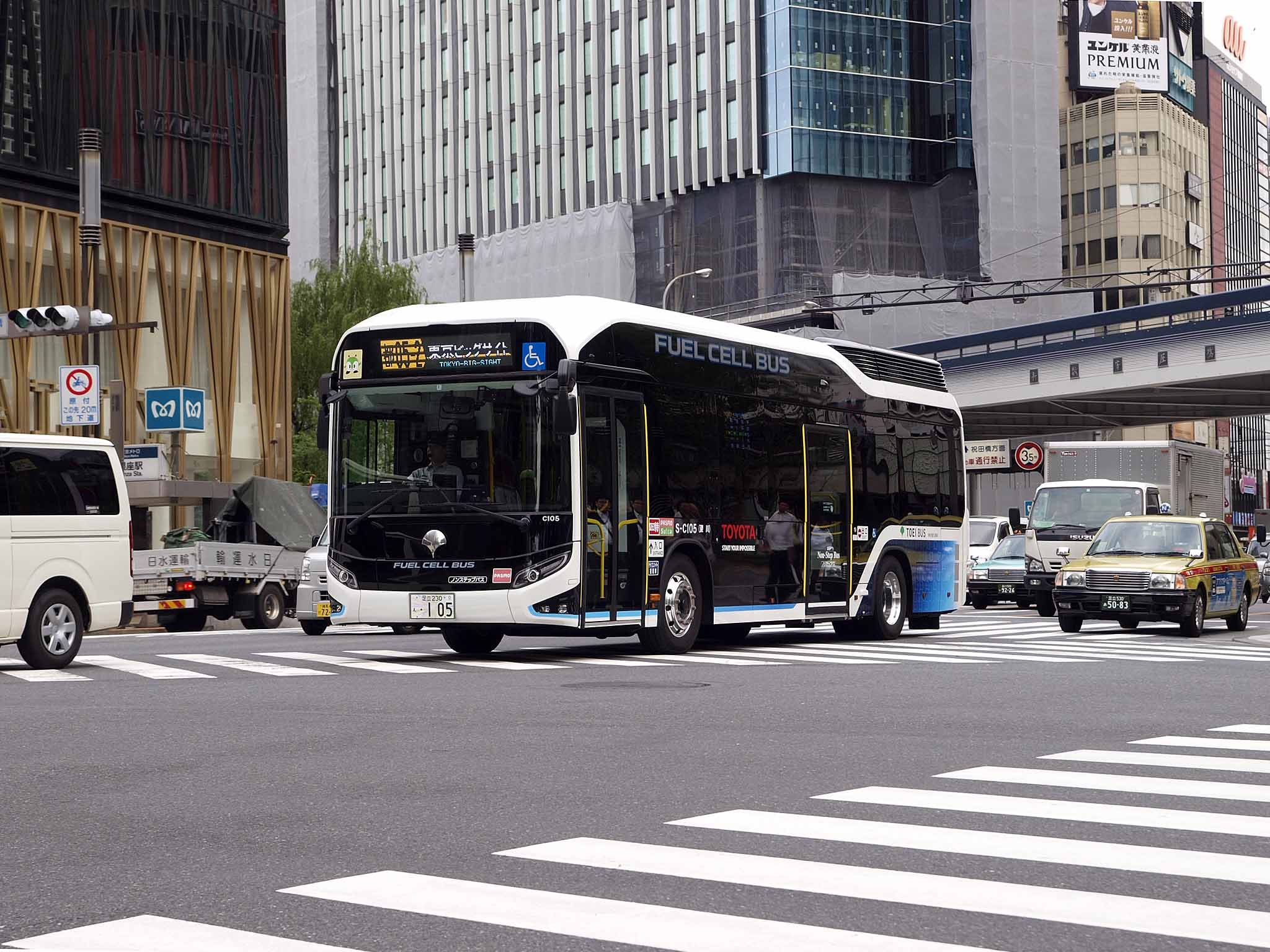 Toyota SORA, fuel cell powered bus. License plate: TKA230 E0105 Place: Ginza Sukiyabashi Crossing, Chuo Ward, Tokyo Japan